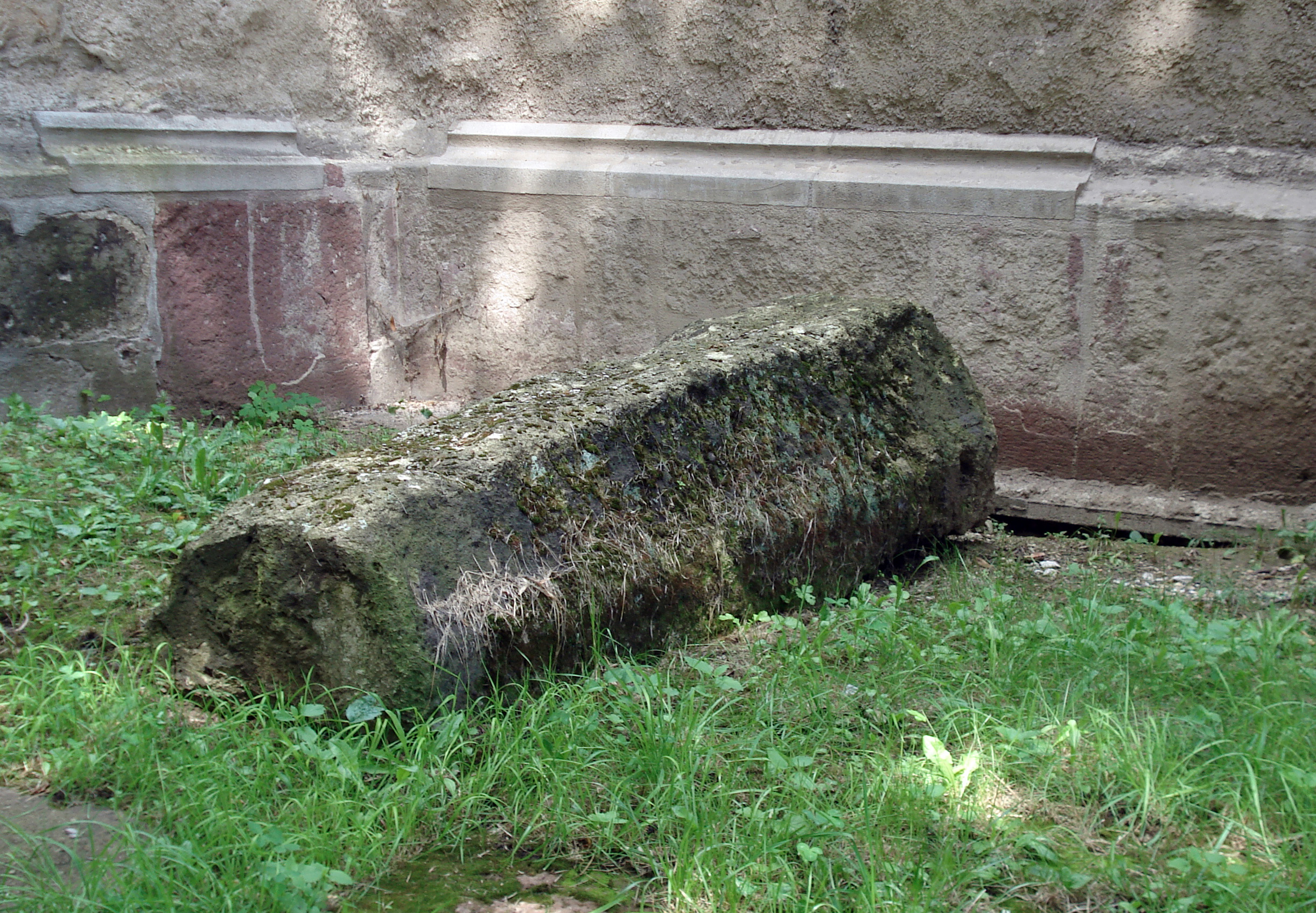 Old tomb-stone, Cemetery of Avas, Miskolc, Hungary